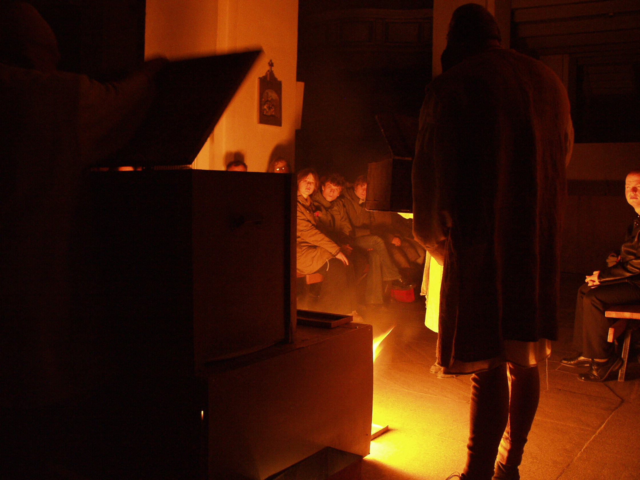 Plastyczny Teatr Symbolu